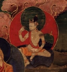 Ngari Paṇchen Pema Wanggyel, b.1487 - d.1542, Nyingma Terton